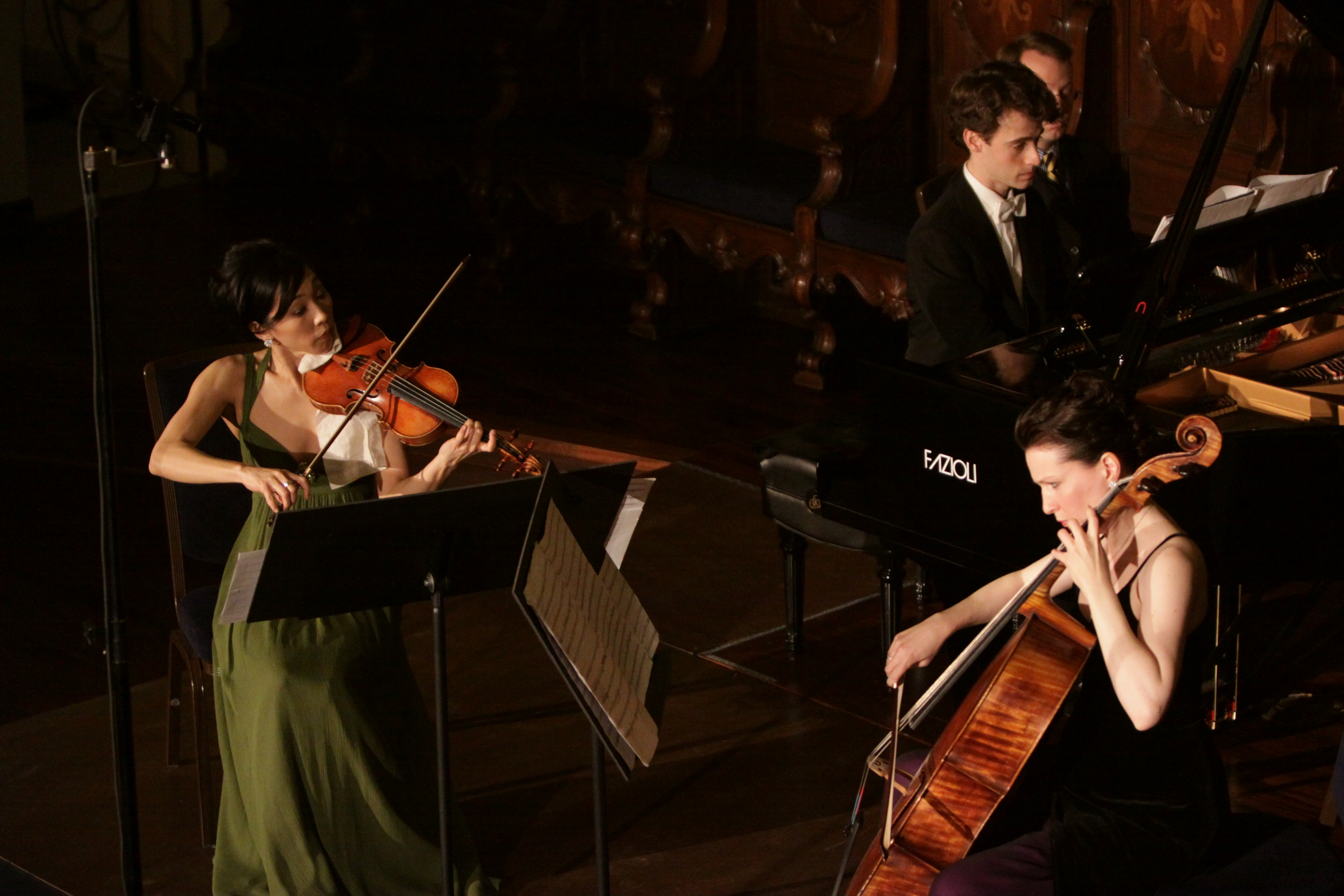 World premiere performance by the Beethoven Project Trio (pianist George Lepauw, violinisit Sang Mee Lee, cellist Wendy Warner) of a newly rediscovered work by Beethoven